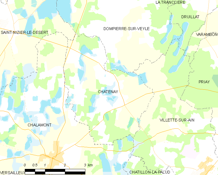 Map of French commune: Châtenay Map commune FR insee code 01090.png